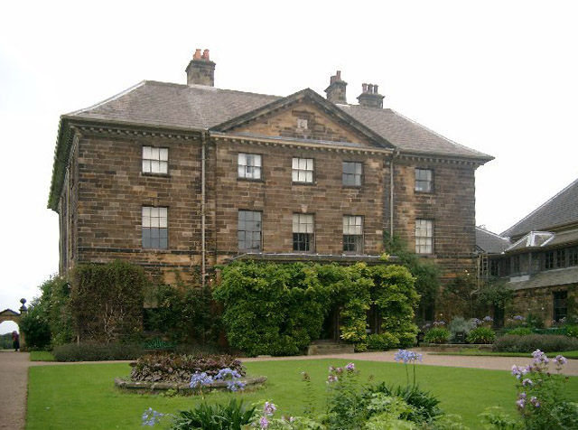 Ormesby Hall, Middlesbrough, Yorkshire